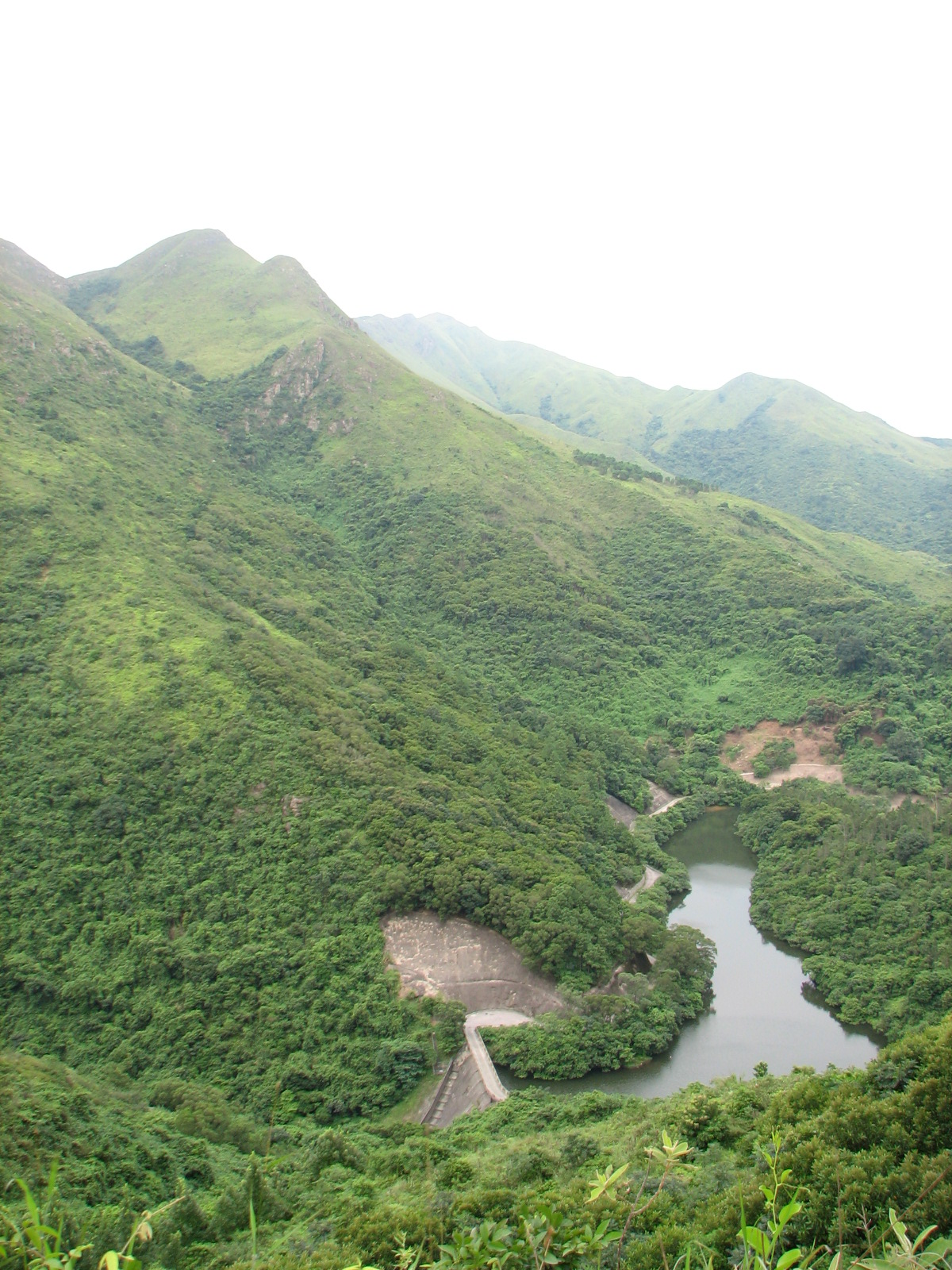 Hok Tau Reservoir